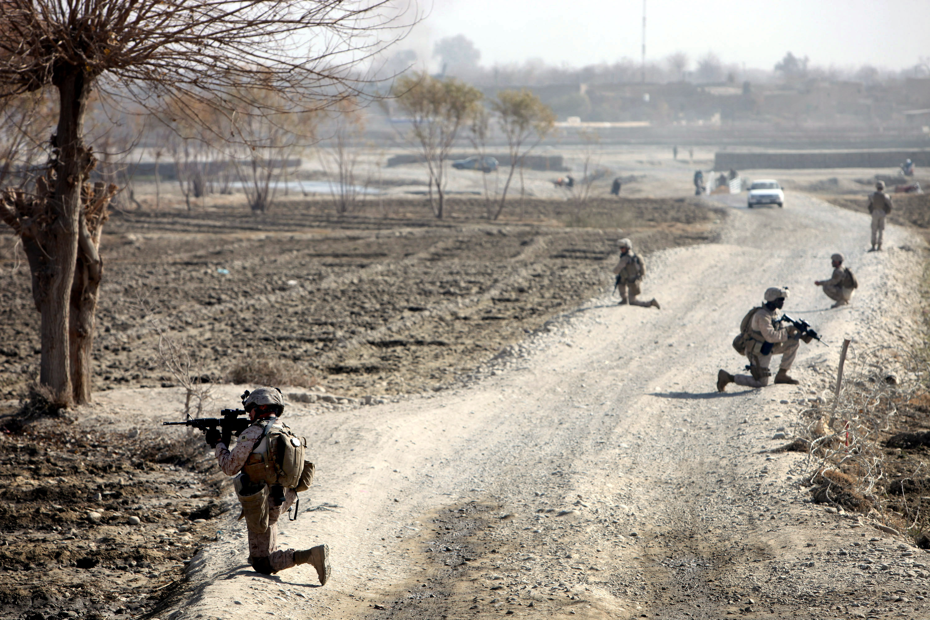 U.S. Marines assigned to the 1st Battalion, 8th Marines, pull security during a patrol in Musa Qal'eh, Afghanistan, Dec. 24, 2010.